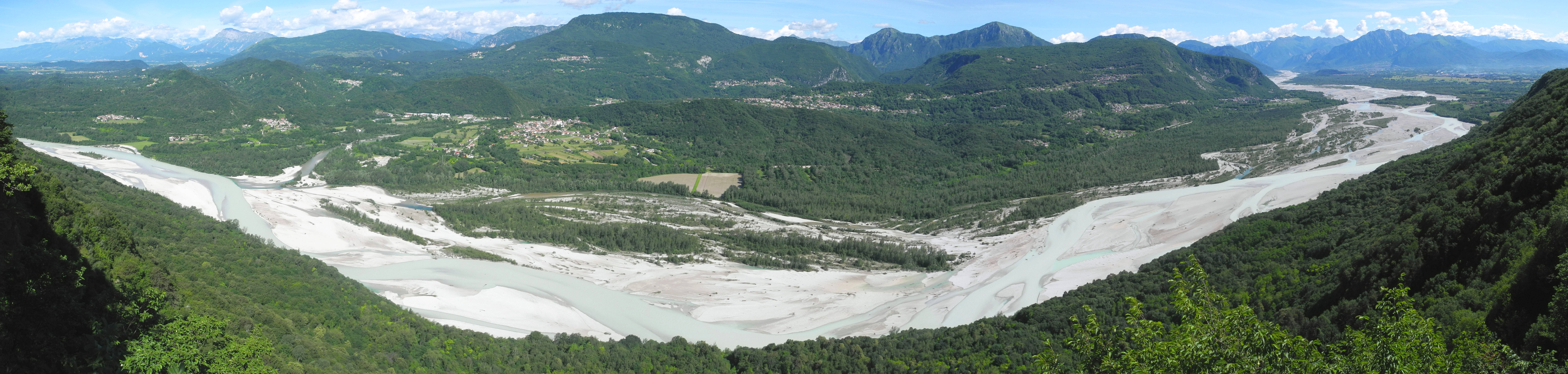 Panorama form Mt. Ragogna (UD), Italy